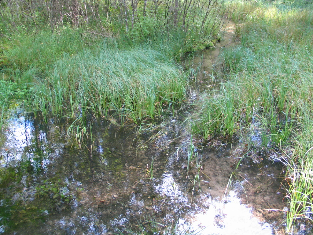 The spring of Odalätsi in Kihelkonna parish, Estonia